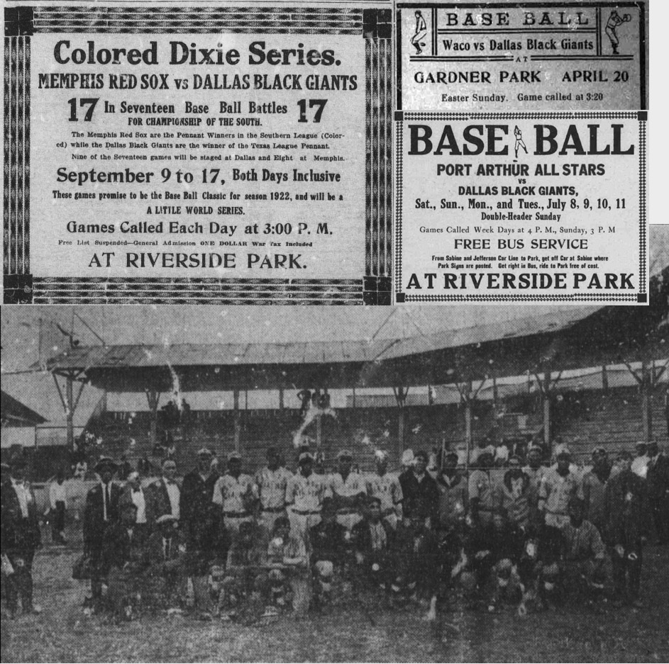 Dixie World Series of 1922